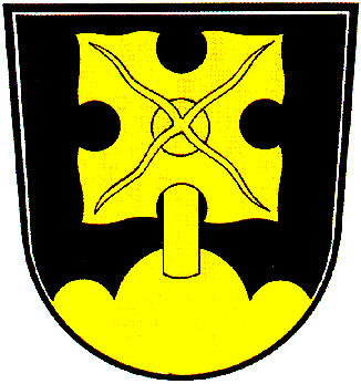 Coat of Arms of Thyrnau